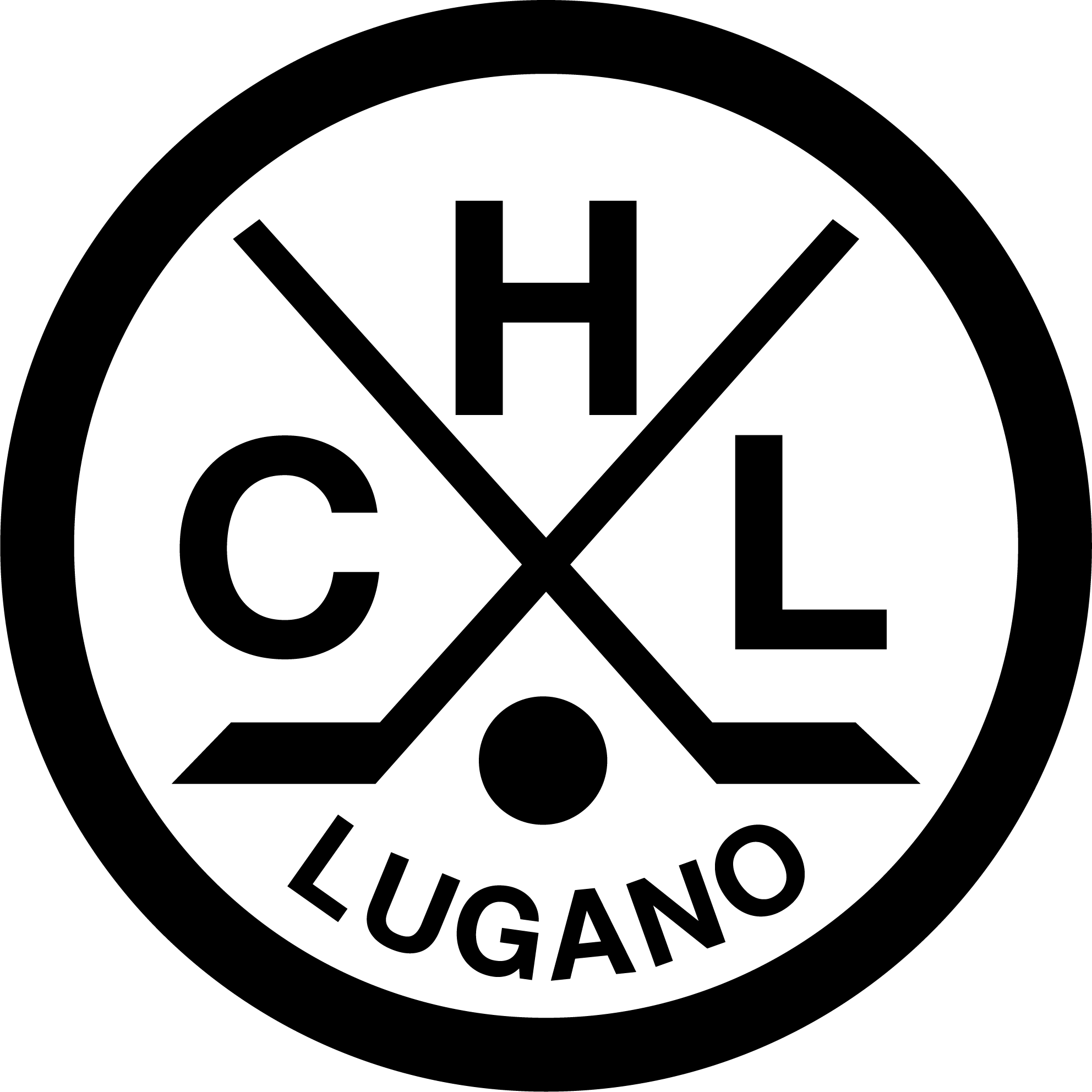 HC Lugano Black Logo 2020